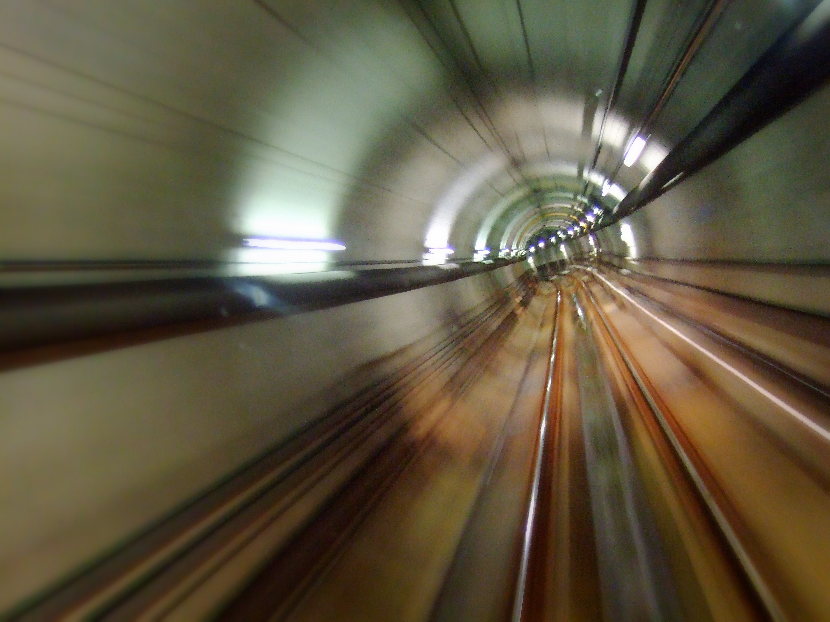 Inside the bored section of the City Loop rail tunnel, Melbourne. I had so much fun riding up the front of the train today!!!